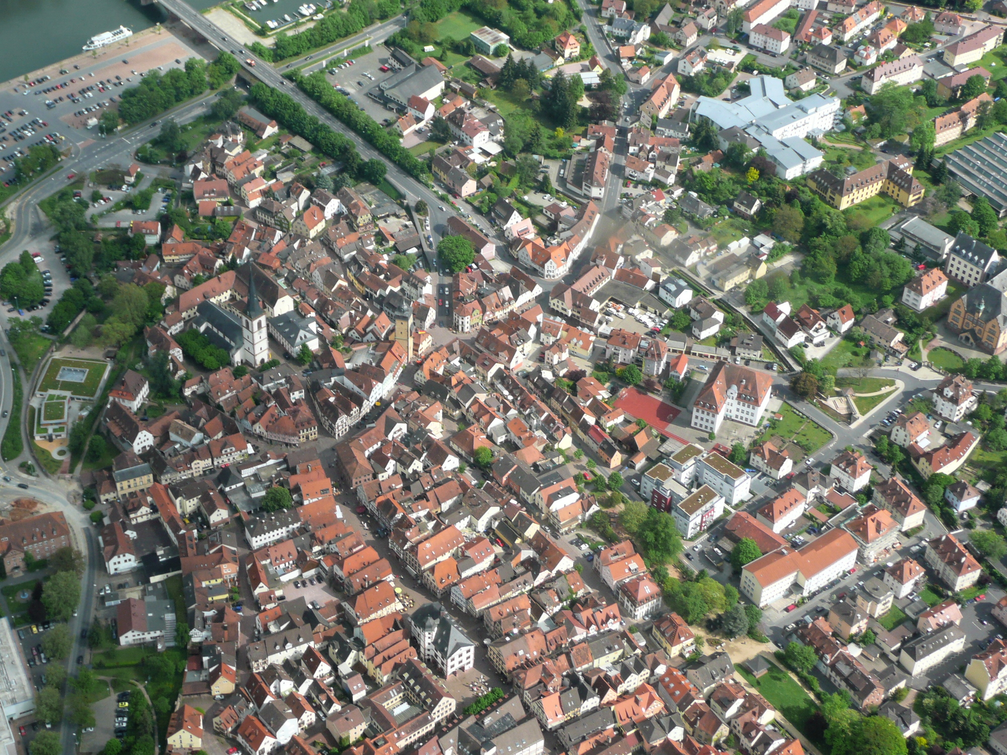 Aerial view of Lohr am Main, Germany. Historical center with church